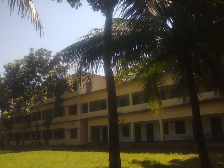 Building.